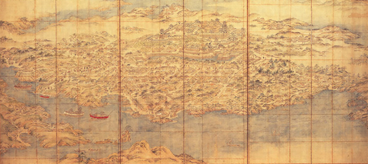 Hizen Nagoya Castle byobu, by Kano Mitsunobu, Saga Prefectural Nagoya Castle Museum, Karatsu, Saga, Japan